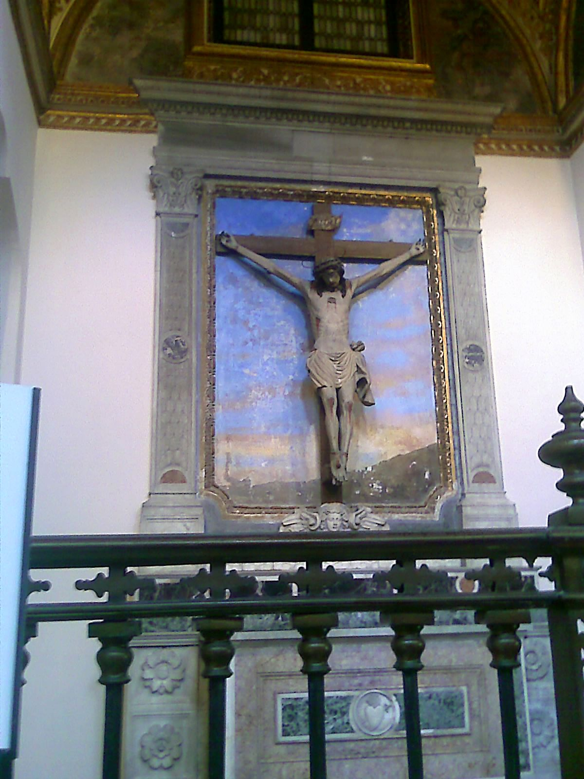 a another chappel